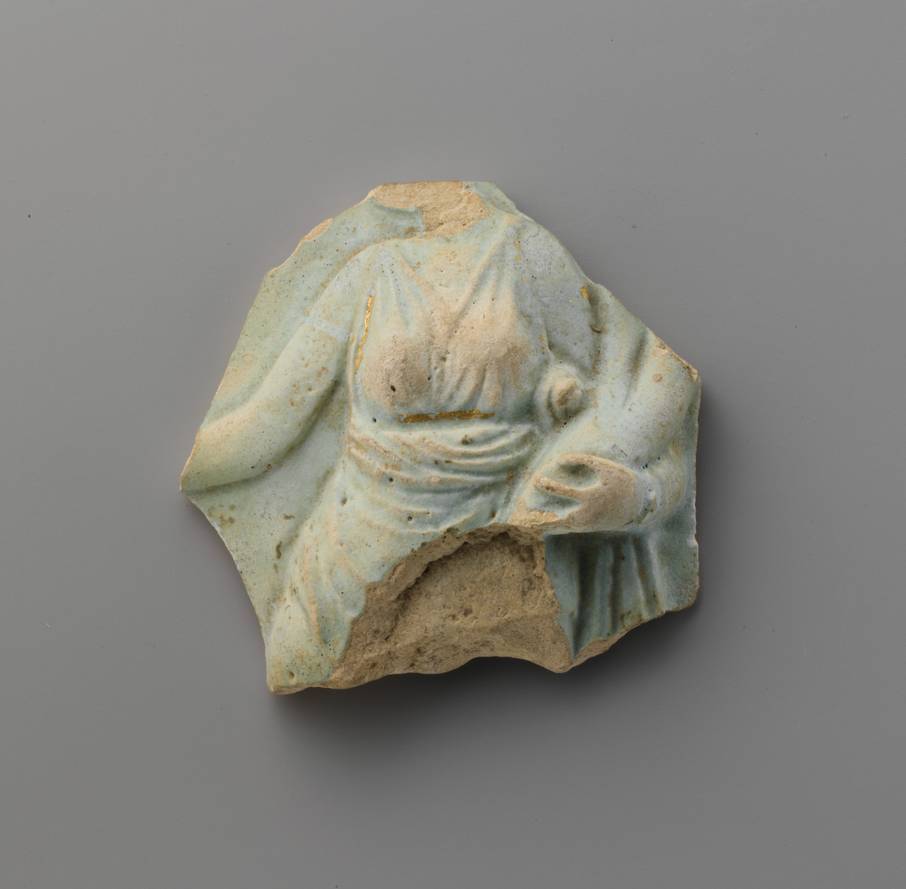 Greek, Ptolemaic; Oinochoe fragment with relief of Arsinoe II; Miscellaneous-Faience